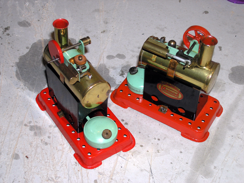 Two Mamod Minors from 1949 and 1954 photographed on a grey worktop.